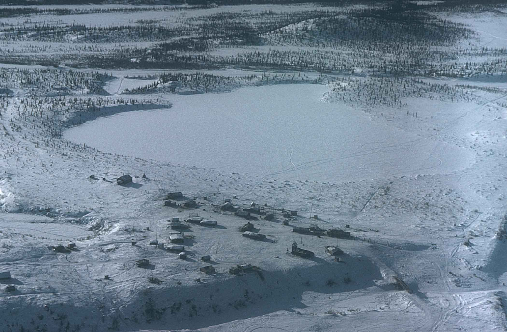 Image title: Aerial view of of Arctic Village, AK, adjacent to Arctic National Wildlife Refuge Image from Public domain images website